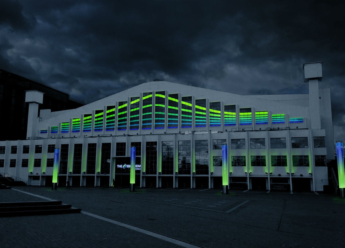 The SSE Arena, Wembley at night